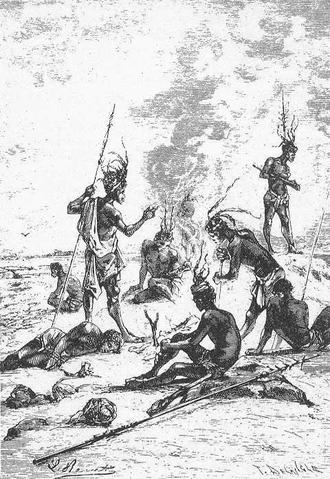 An illustration from Jules Verne's novel "Godfrey Morgan: A Californian Mystery" (also published as "Godfrey Morgan, School for Robinsons", and "School for Crusoes", 1882) drawn by Léon Benett.